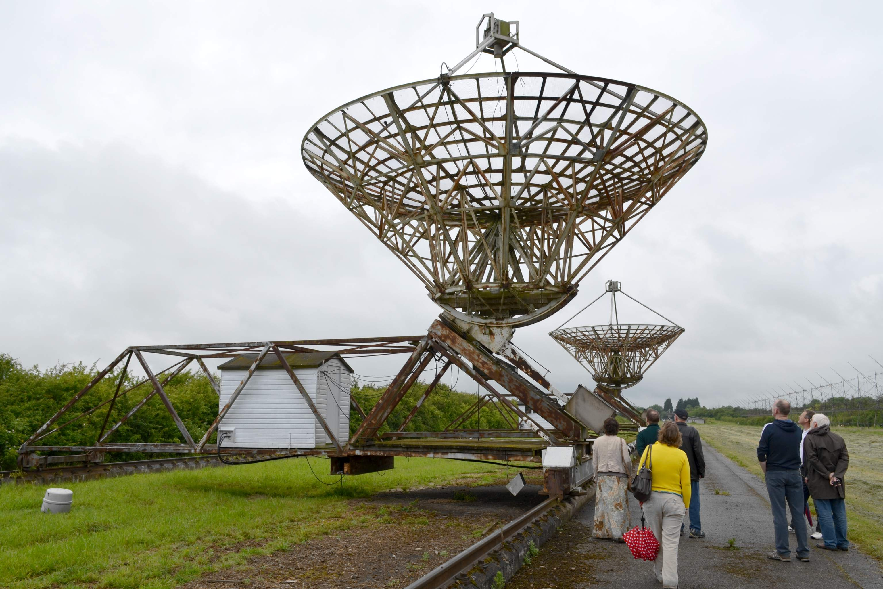 Two antennas of the Half-Mile Telescope at the Mullard Radio Astronomy Observatory, Cambridgeshire in June 2014.